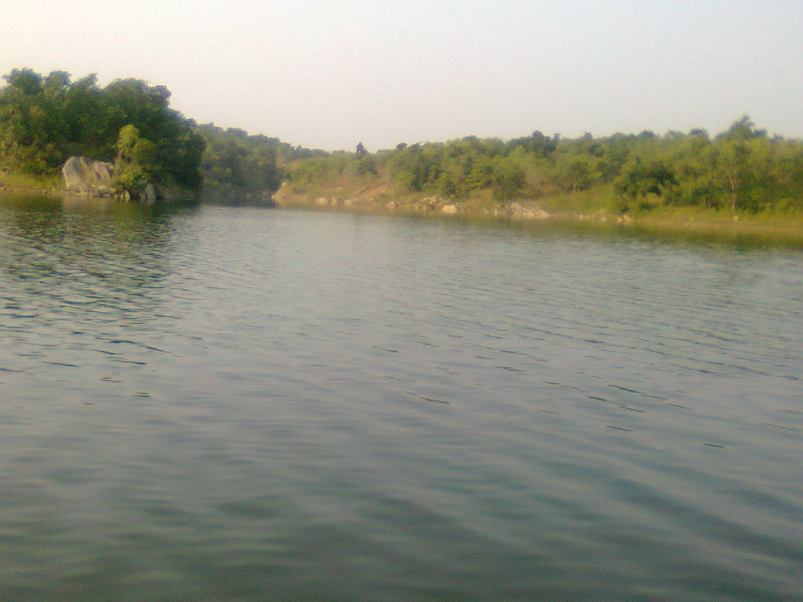 Kanore Anikut